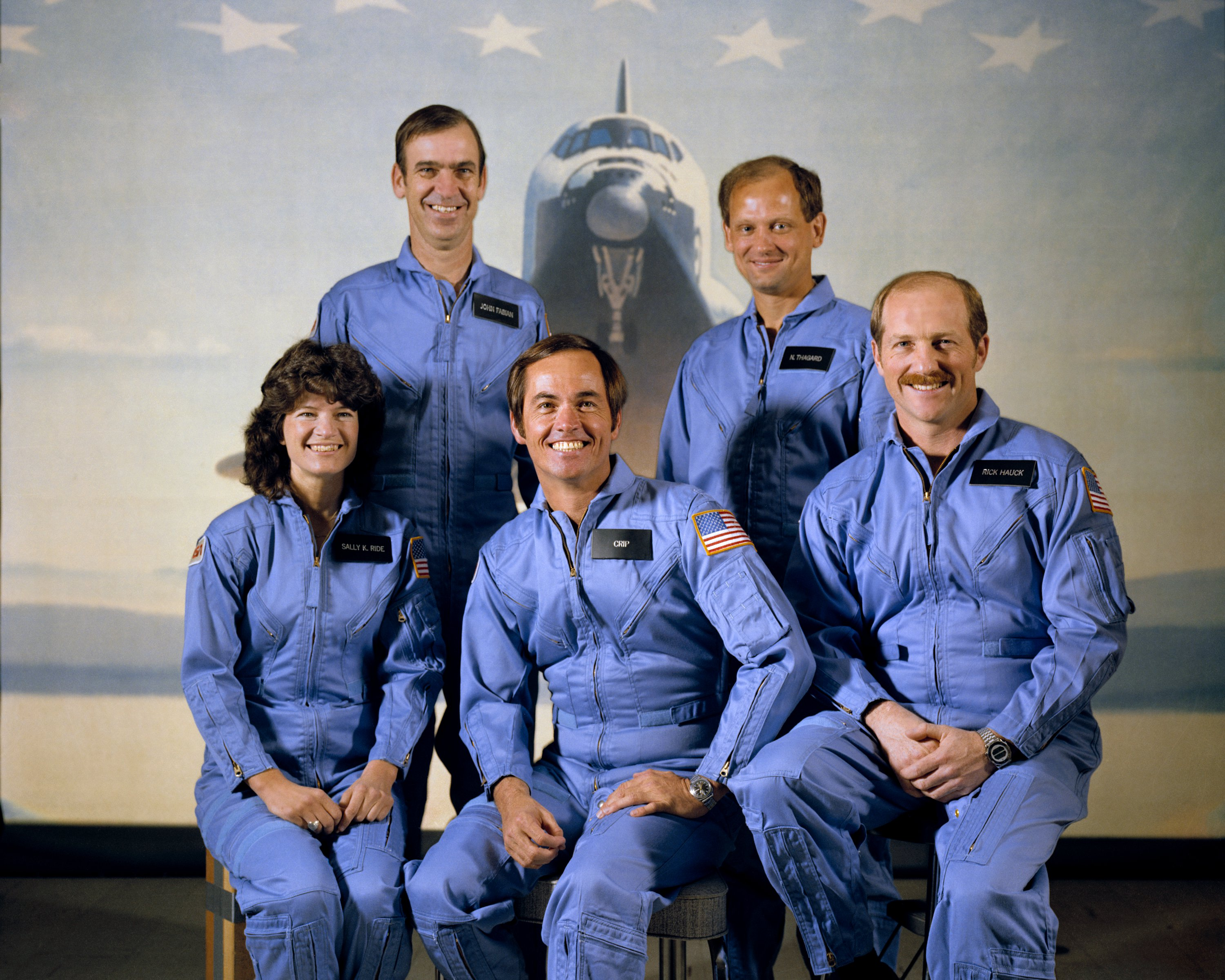 Astronauts of the STS-7/Challenger mission are left to right first row: Sally K. Ride (mission specialist), Robert L. Crippen (commander), Frederick H. Hauck (pilot); rear row: John M. Fabian (left) and Norman E. Thagard (mission specialists). STS-7 launched the first five-member crew and the first American female astronaut into space on June 18, 1983.